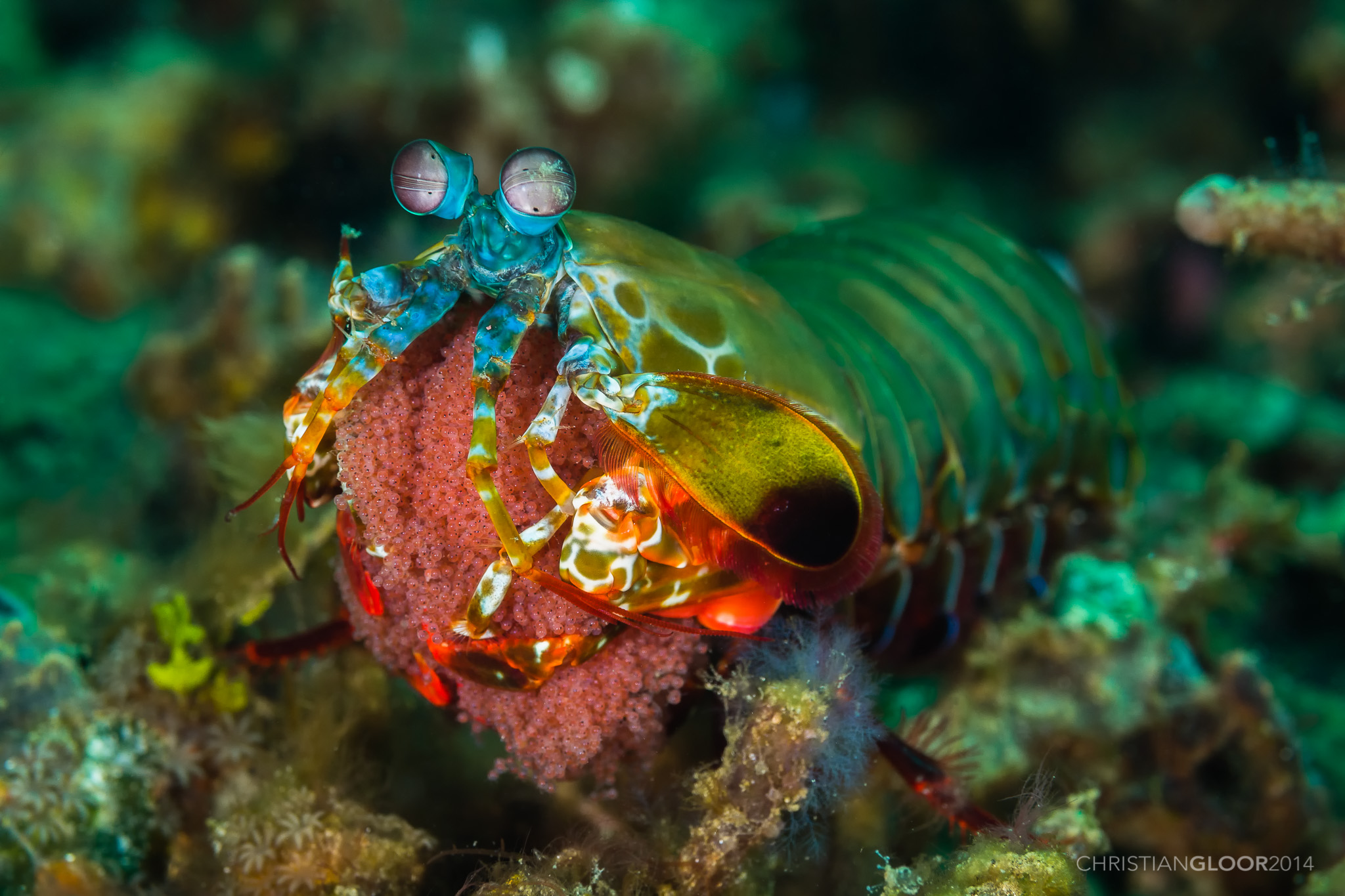 Peacock Mantis Shrimp (with eggs) / Odontodactylus scyllarus